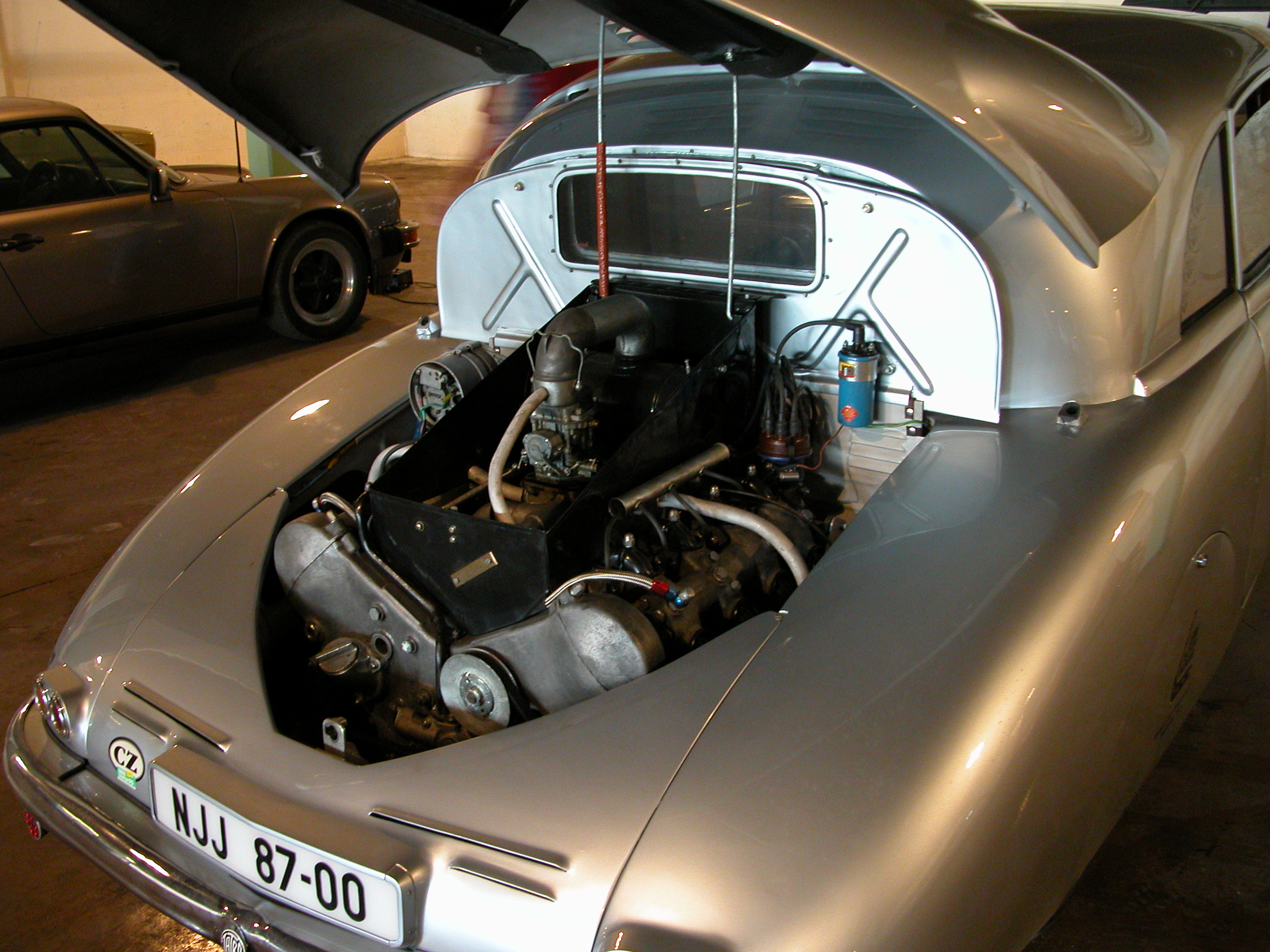 American Automobile Culture: Cars from the Lane Motor Museum A rare Czech Tatra T-87 Saloon, one of the most aerodynamic cars ever